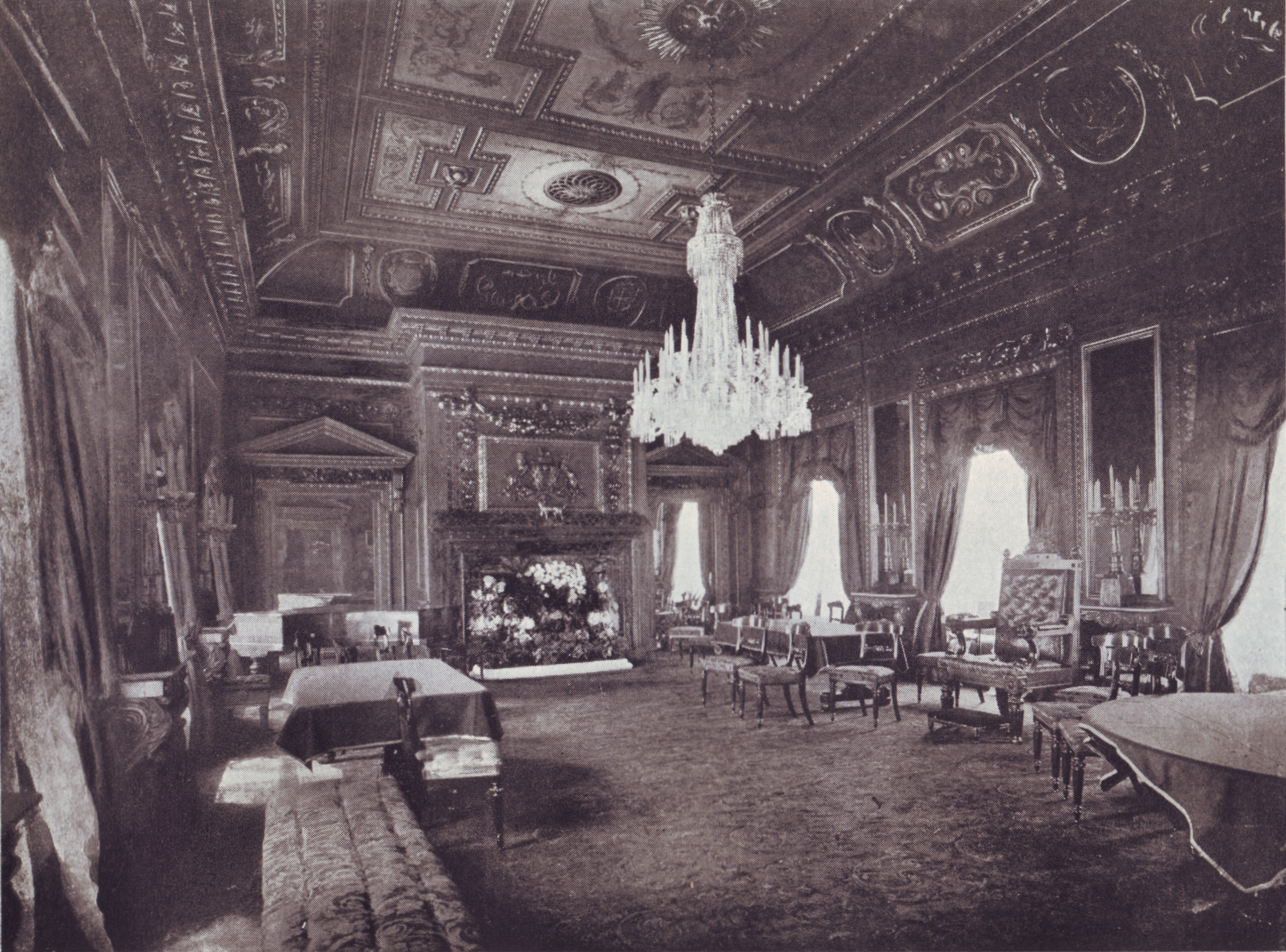 „The cedar drawing room, Skinners' Hall“, London.